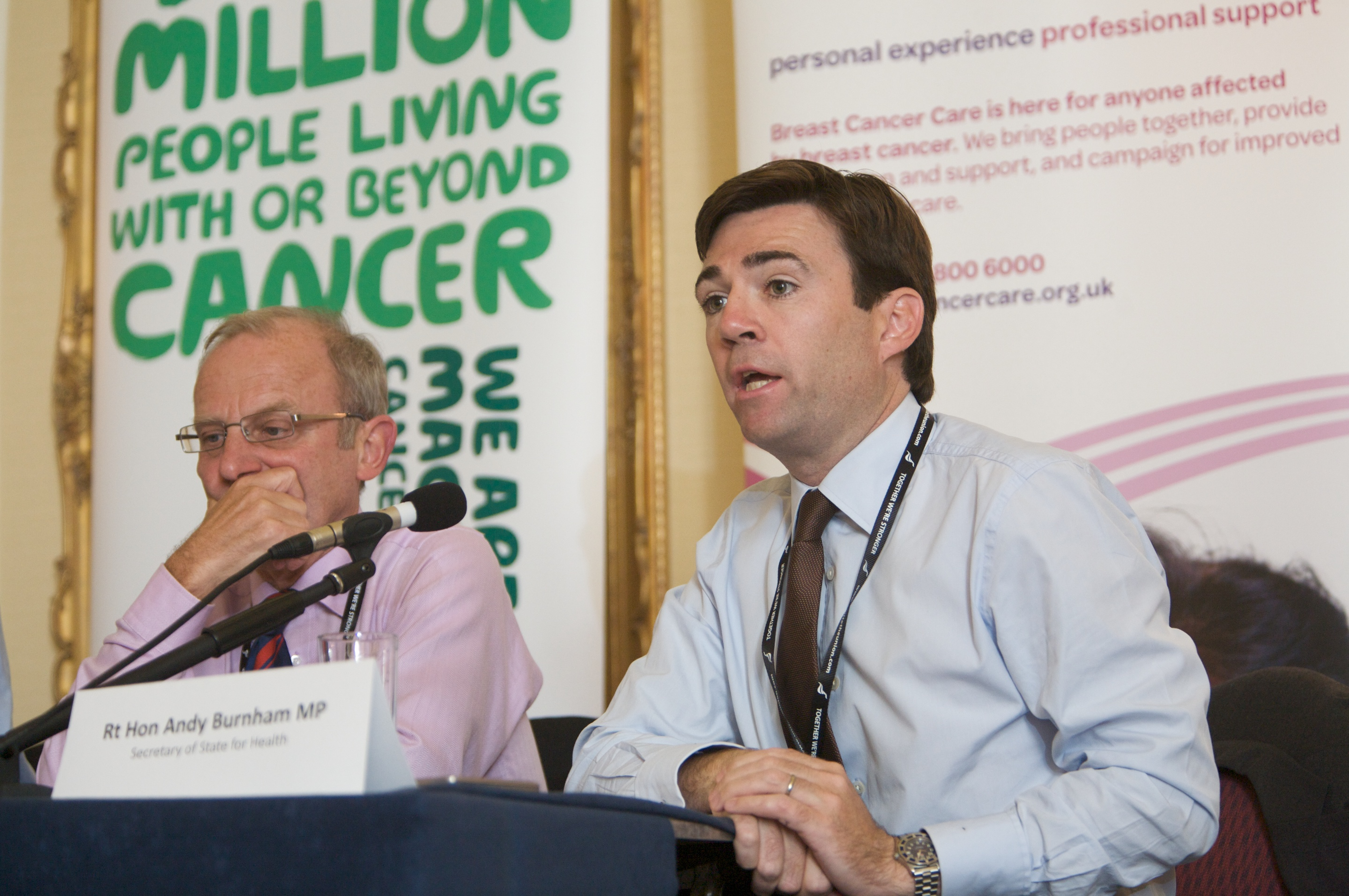 Andrew Burnham, British politician and Secretary of State for Health, speaking during the Health Hotel session "One in three: Tackling cancer is an election issue" at the Hilton Metropole, Brighton, during the Labour Party Conference 2009.